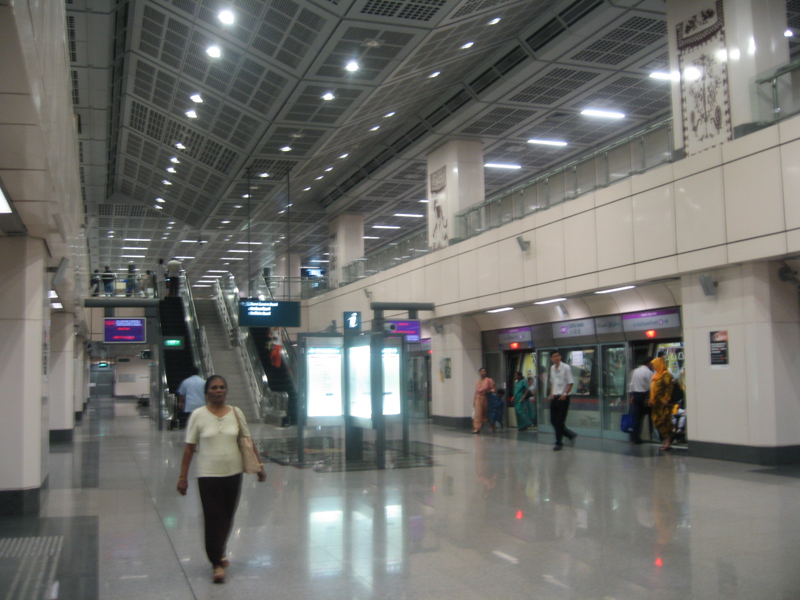 Little India MRT Station.